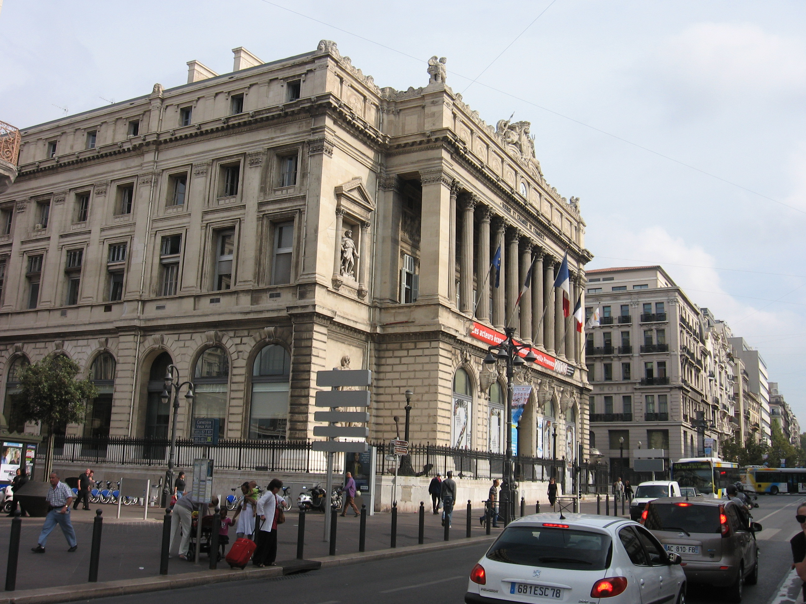 Canebière and Palais de la Bourse